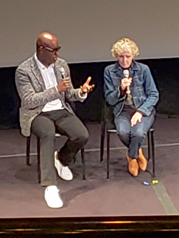 Claire Denis at a Q&A for High Life at the Winter Garden Theatre in Toronto, Ontario, Canada